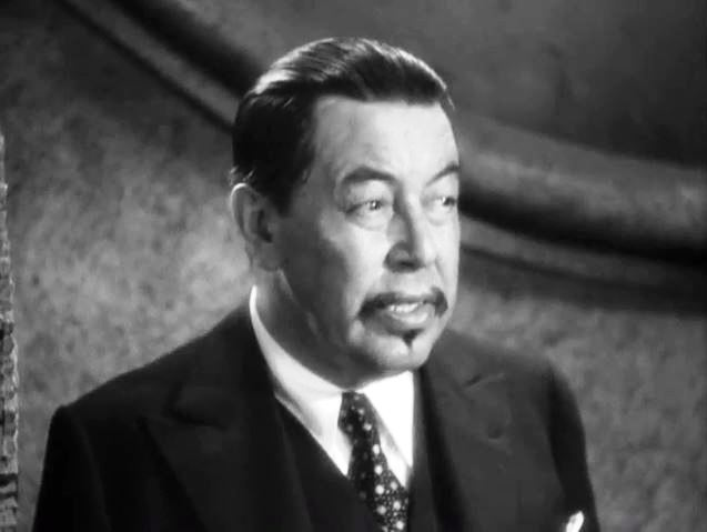 Low resolution screenshot of Warner Oland from the American film Charlie Chan's Secret (1936). The film is in the public domain due to the omission of a valid copyright notice on its original prints.